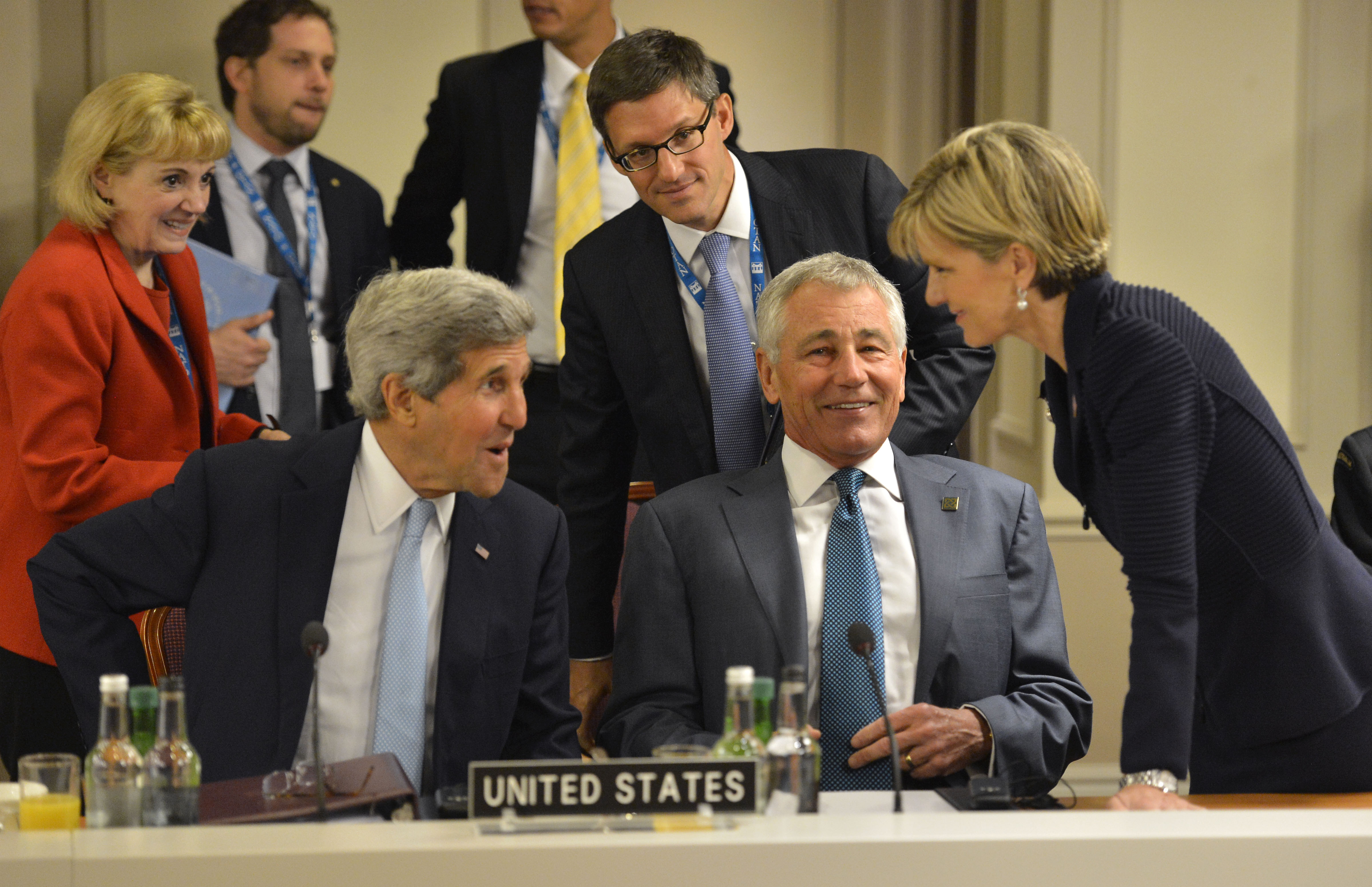 Secretary of Defense Chuck Hagel and Secretary of State John Kerry enjoy a lighthearted conversation as they sit down to for a multilateral Iraqi support meeting as they attend the NATO summit held in Newport, Wales, September 5, 2014. DoD Photo by Glenn Fawcett (Released)